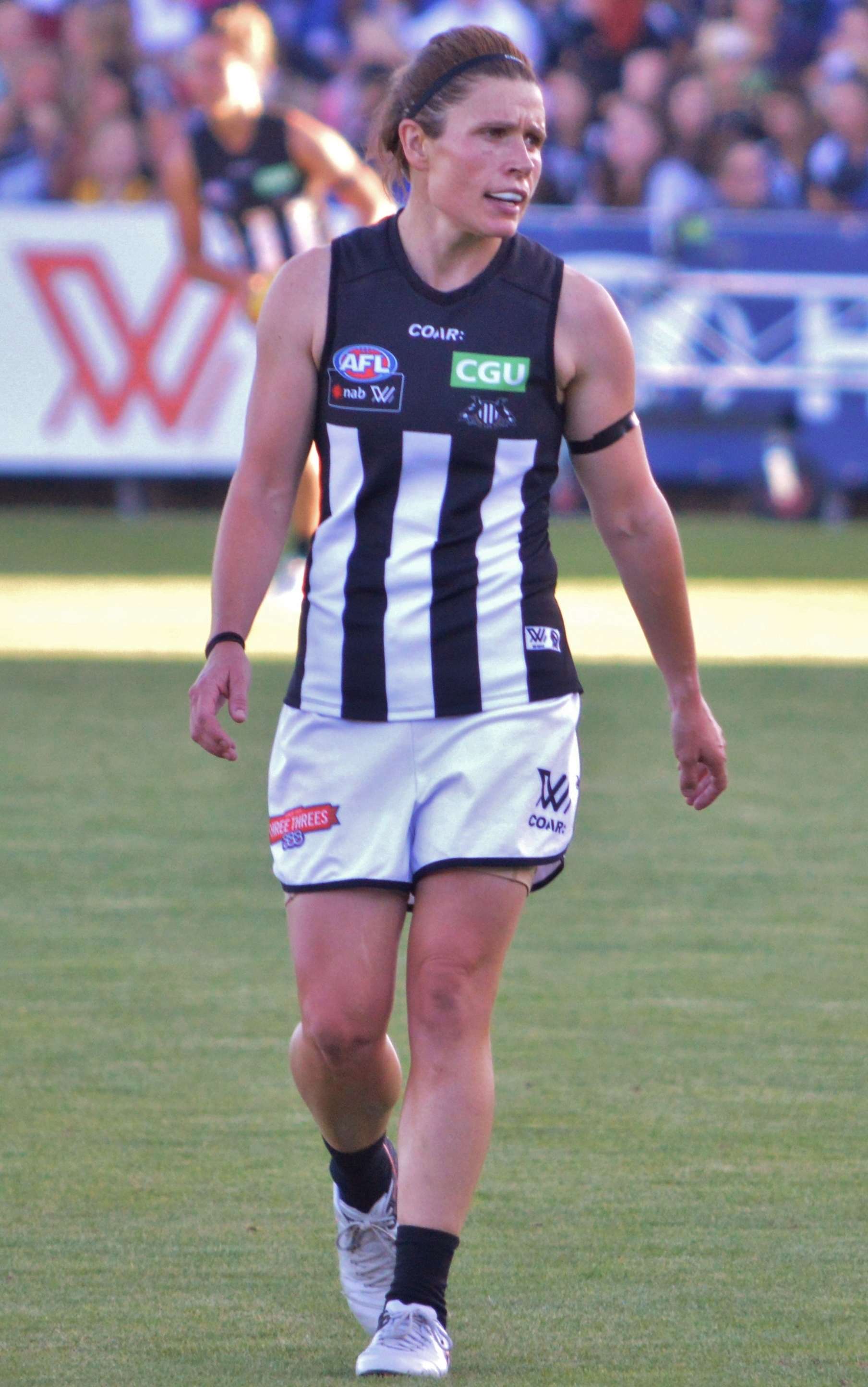 Bree White during the Round 1 2017 AFL Women's match between Carlton and Collingwood at Princes Park